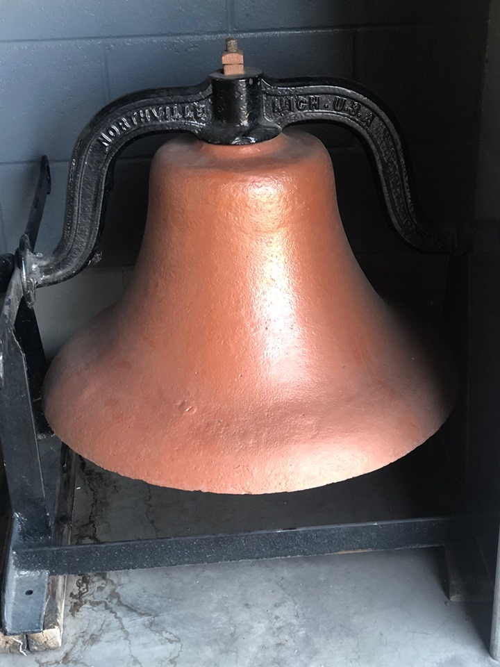 Historic 1925 Cottonwood Fire Bell in Cottonwood, Az